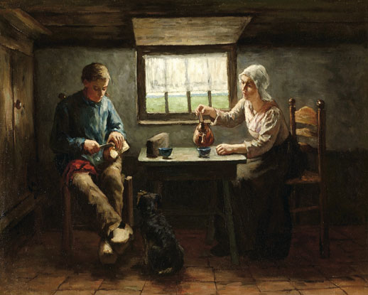 Theetijd in een boereninterieur